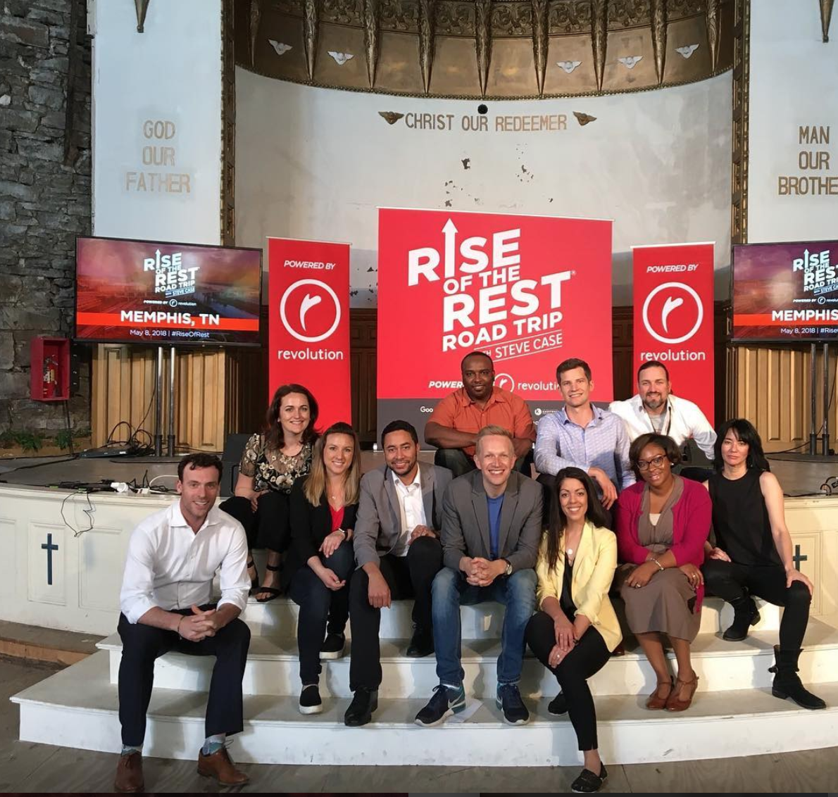 Maggie Louie Co-founder, CEO DEVCON, Rise of The Rest pitch competition in Memphis, TN, Steve Case